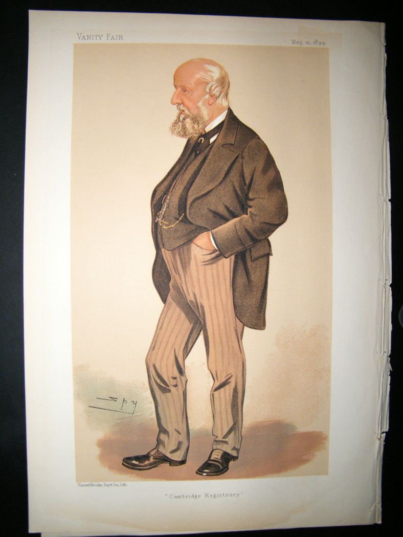 Men of the Day No.0586: Caricature of Mr JW Clark MA. Caption reads: "Cambridge Registrary"